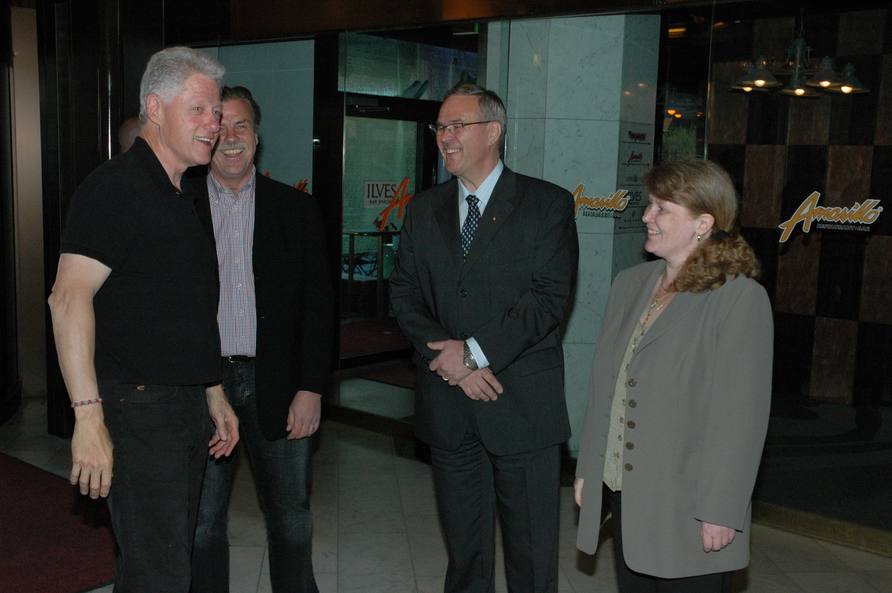 Former U.S. president Bill Clinton in Sokos Hotel Ilves, Tampere, Finland, 2006.